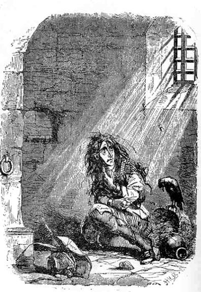 Illustration by Phiz for Barnaby Rudge, by Charles Dickens.